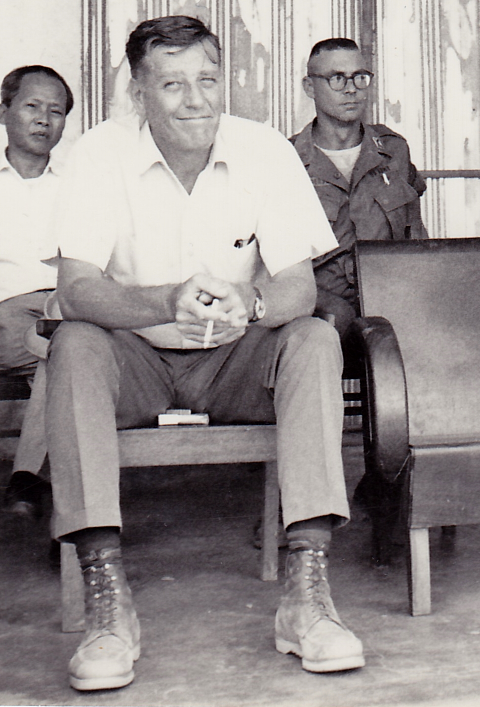 COL (USA Ret.) Robert B. Brewer, U.S. Province Senior Advisor, Quang Tri Province, and MAJ Hilton S. (Sandy) Sanderson, MACV Team 4 Executive Officer, at a ceremony in Quang Tri City in April, 1968